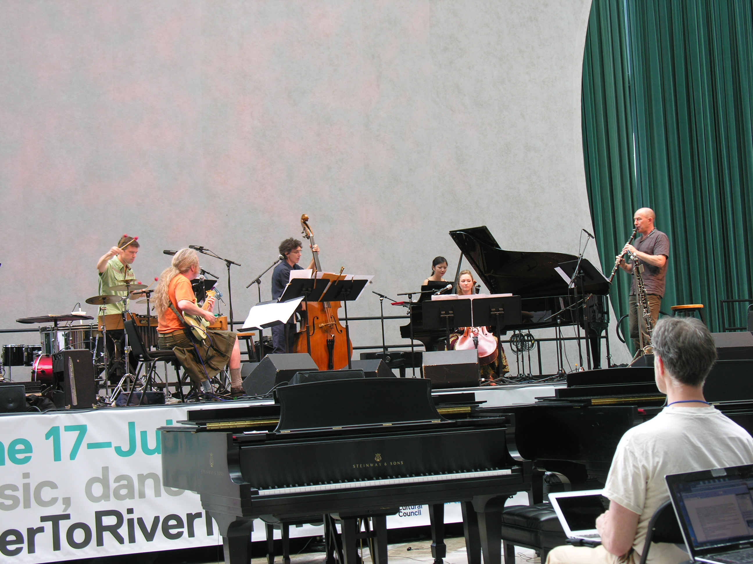 Bang on a Can All-Stars perform at the Bang on a Can Marathon at The World Financial Center Wintergarden Theater. July 18, 2012. Photo by